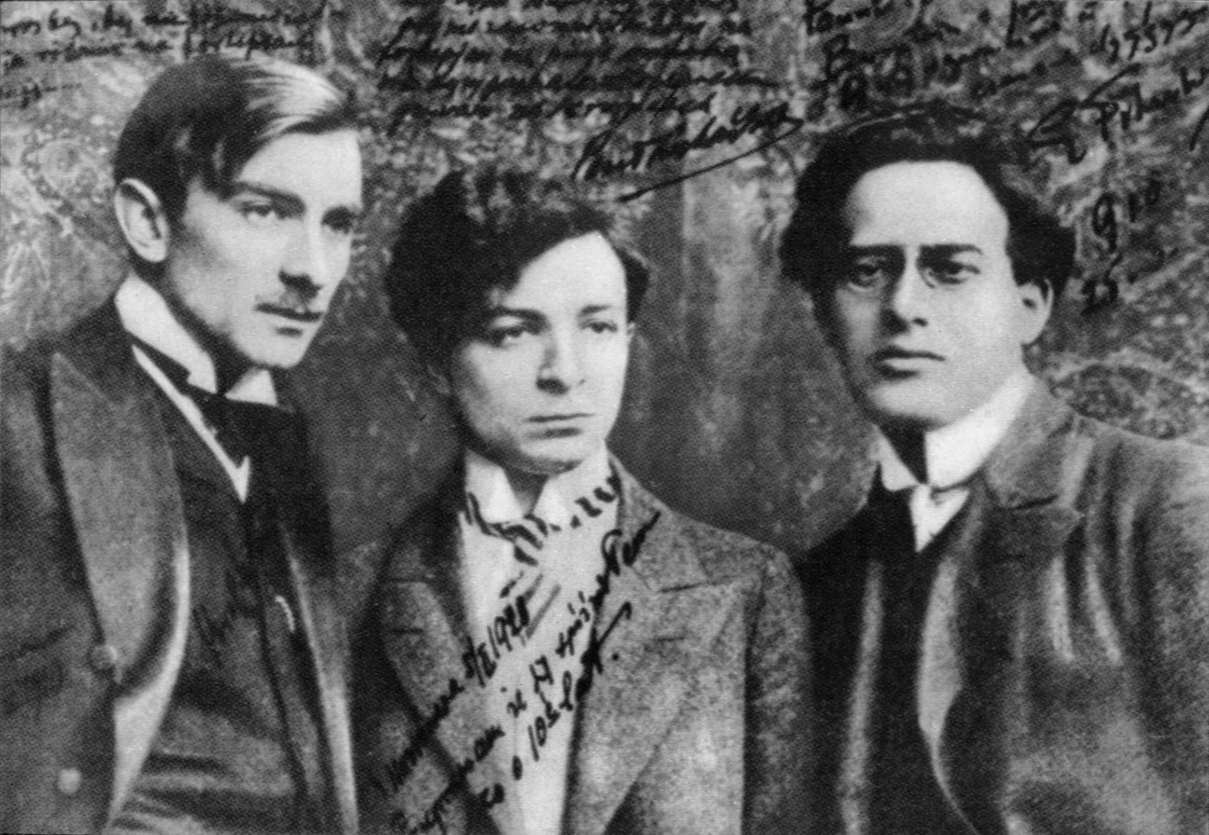 Polish musicians: Szymanowski, Kochański, Fitelberg